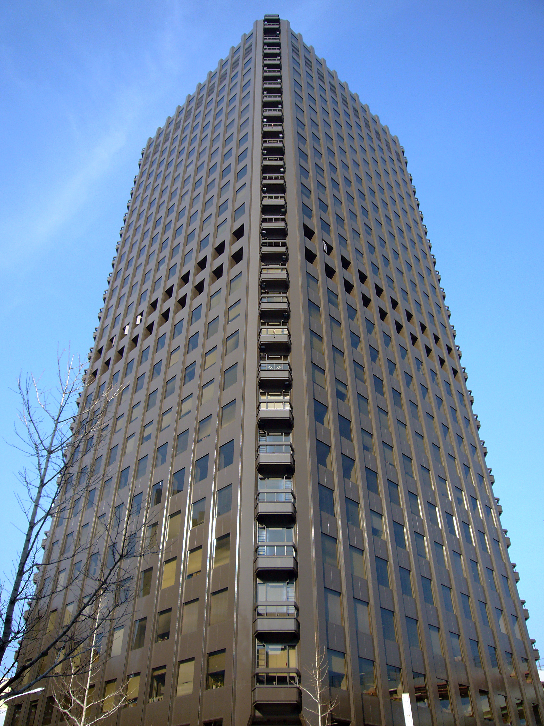 Kobe Commerce, Industry and Trade Center Building, Kobe, Hyogo prefecture, Japan